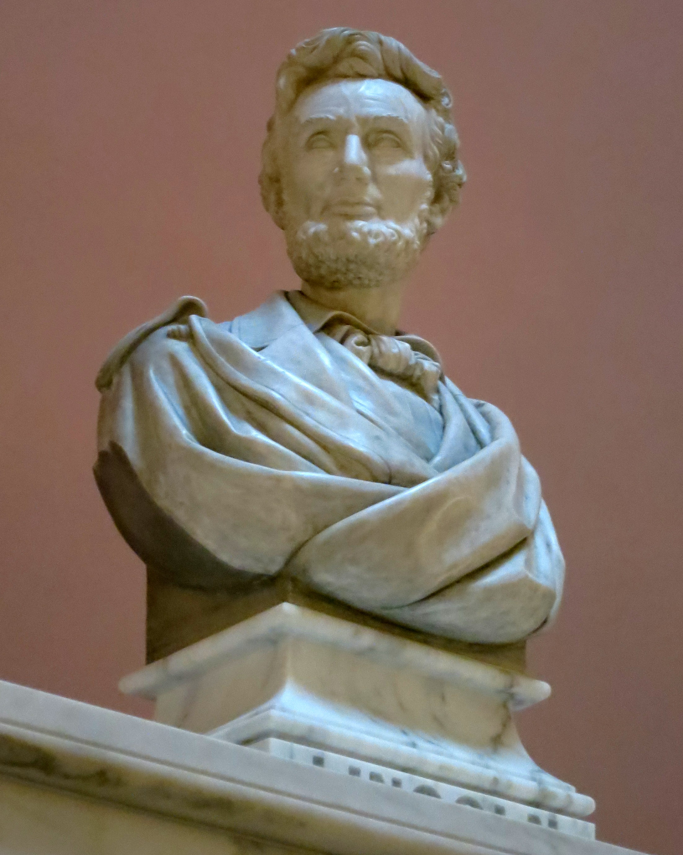 This bust by Ohio artist, Thomas Dow Jones, is from the Lincoln Vicksburg Monument in the Ohio Statehouse Rotunda. The subject actually sat for this sculpture. Upon its completion, Lincoln declared, “It looks very much like the critter.” The sculpture is one of the first depictions of Lincoln in his newly grown beard.